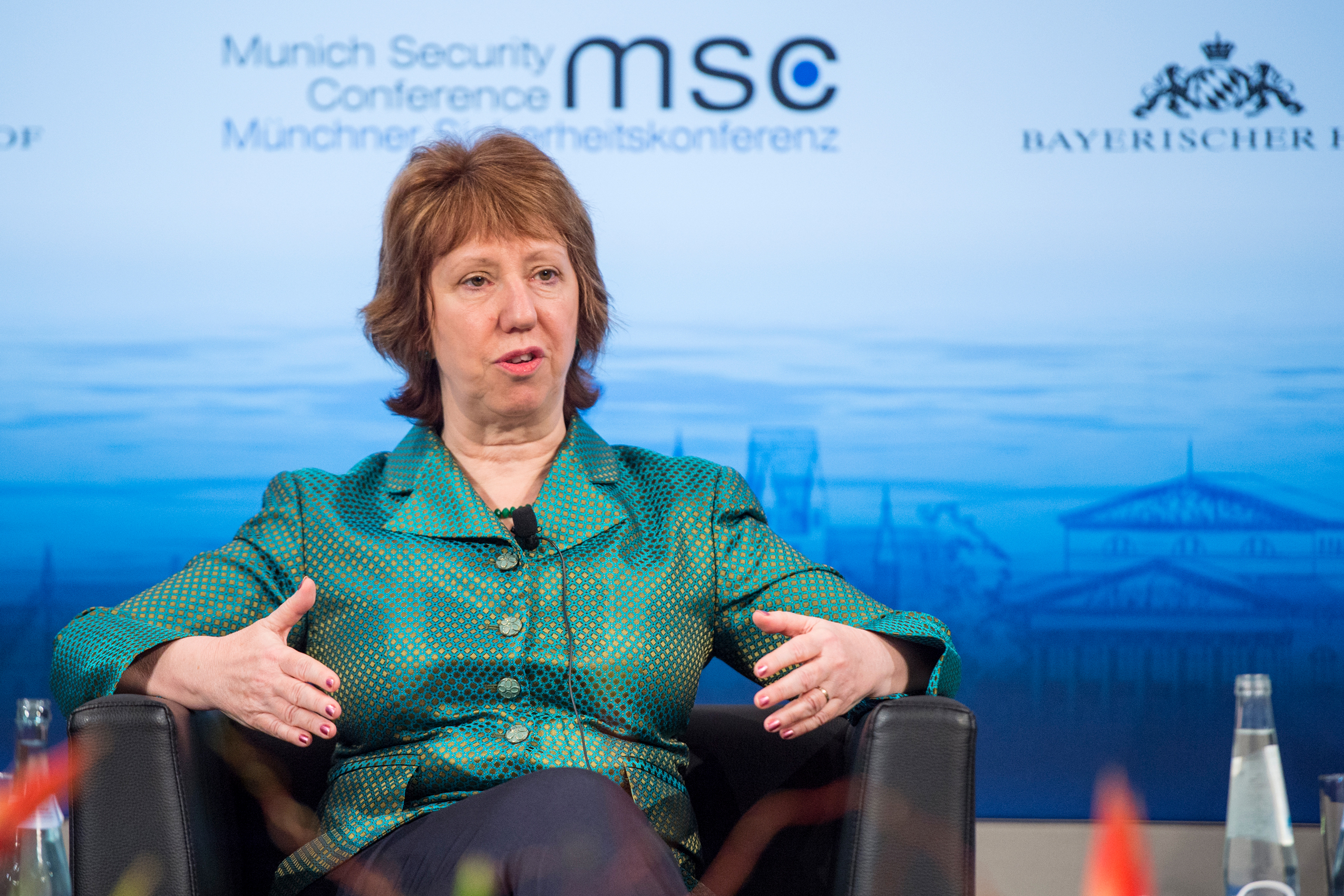 50th Munich Security Conference 2014: Catherine Ashton: Catherine Ashton (High Representative for Foreign Affairs and Security Policy, EU).